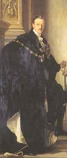 The painting is by John Singer Sargent, who died in 1925.